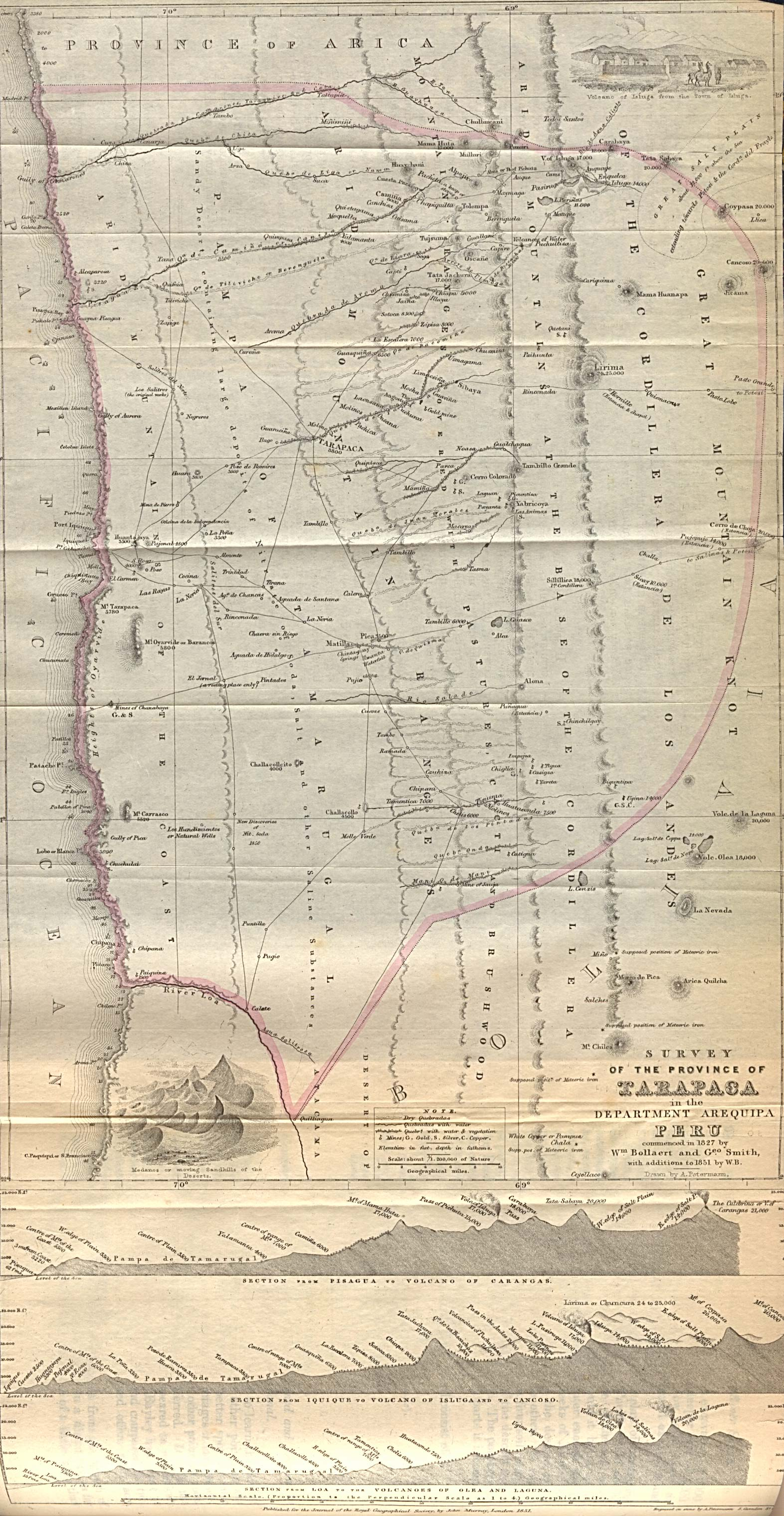 Peru - Tarapaca Province 1851. "Survey of the Province of Tarapaca in the Department of Arequipa Peru commenced in 1827 by Wm. Bollaert and Geo. Smith with additions to 1851 by W.B." From The Journal of the Royal Geographical Society.